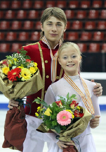 Anastasia Martiusheva & Alexei Rogonov during the pairs medals ceremony at the 2009 World Junior Championships.